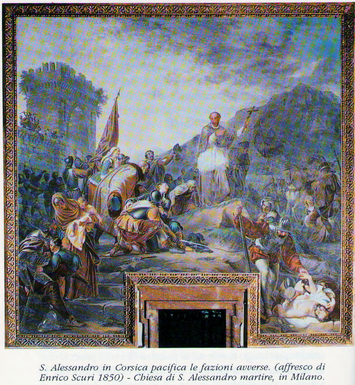 Alexander Sauli puts peace between adverse fractions